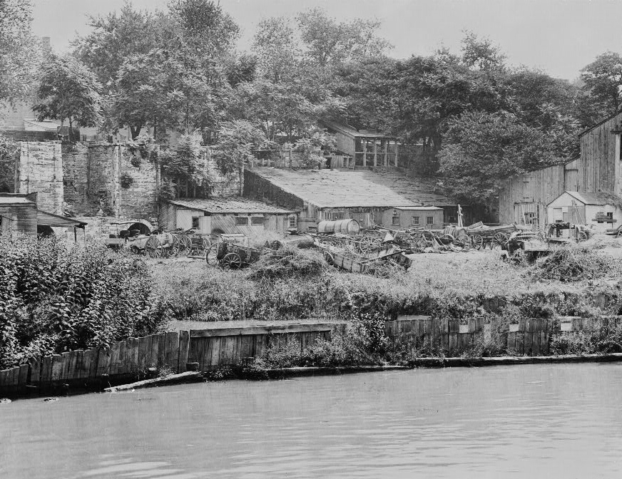 1. Historic American Buildings Survey Photographer Unknown, post 1907. EXTERIOR FROM WEST Copied from print in files of National Capital Region, National Park Service, Washington, D. C. - Godey Lime Kilns (Ruins), Junction of Rock Creek & Potomac Parkway, Washington, District of Columbia, DC